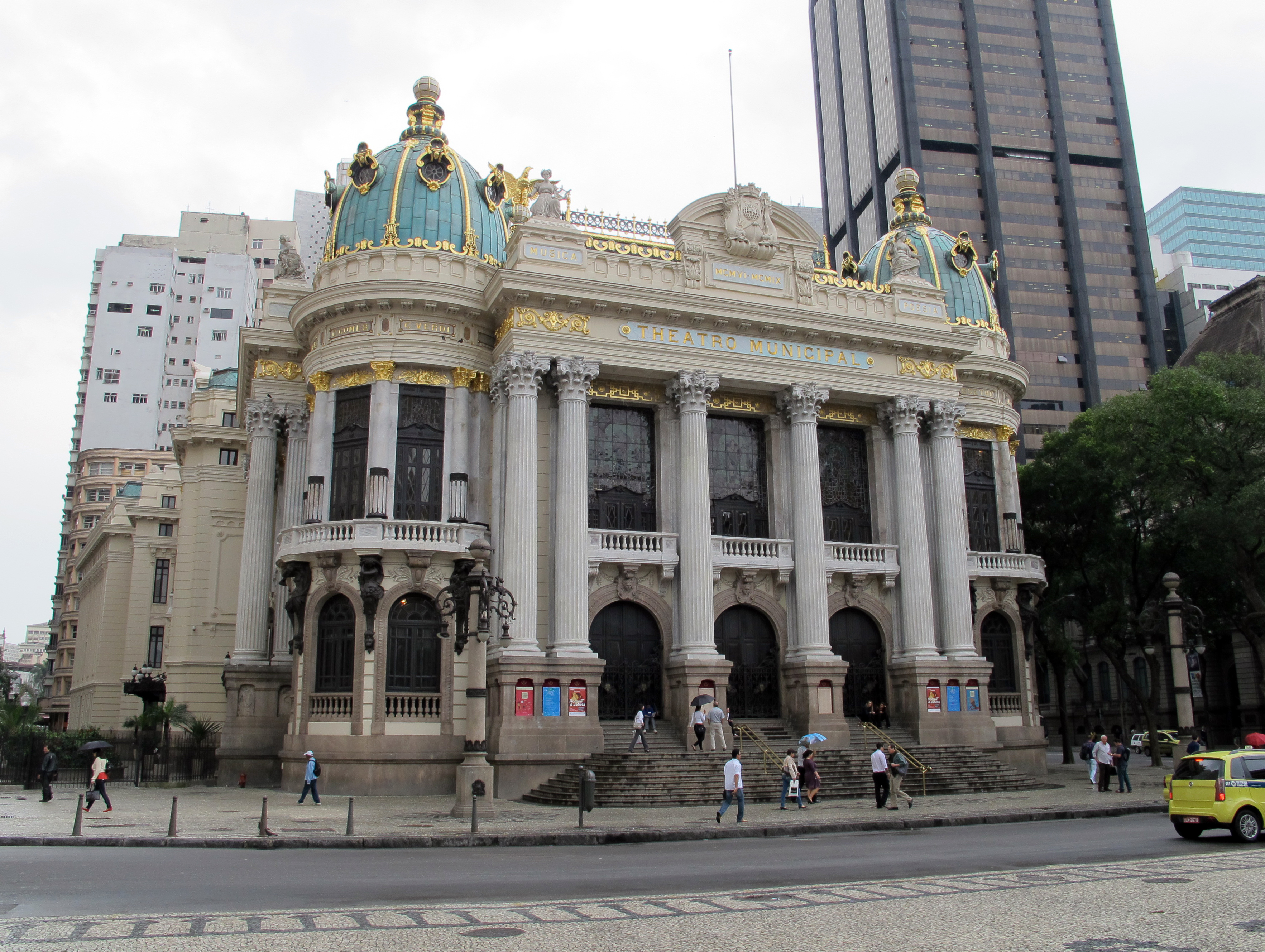 Municipal Theatre of Rio de Janeiro